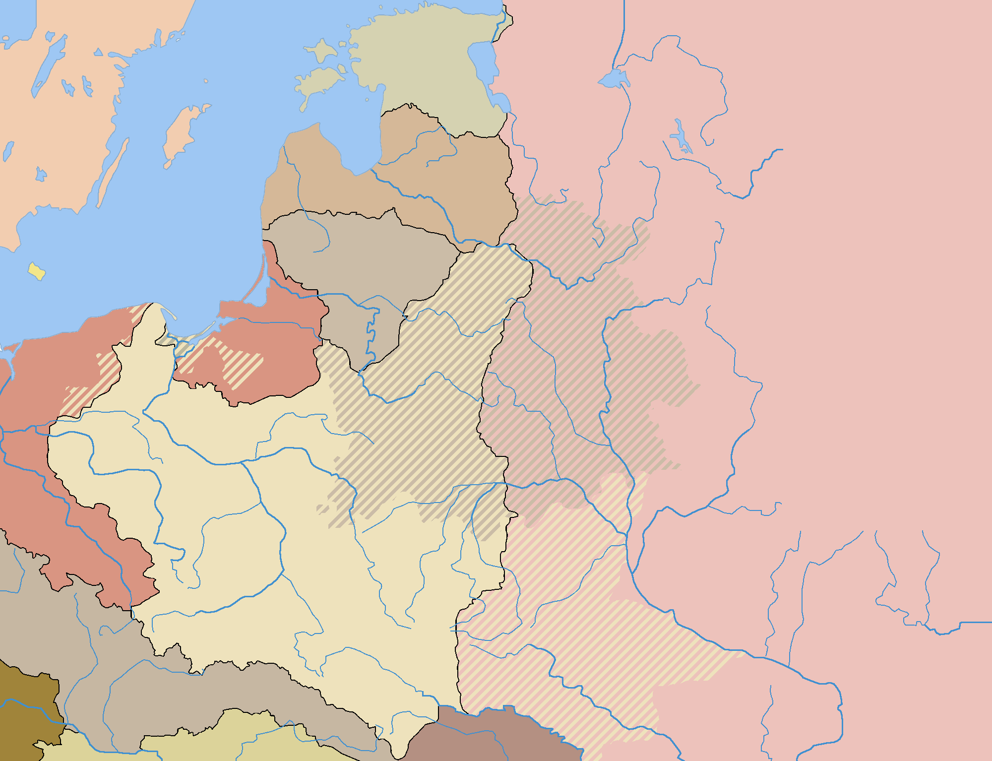 The map shows the borders in Central Europe after the Polish-Bolshevik War (as of 1922). The areas marked with lines had been part of the Polish-Lithuanian Commonwealth and then Poland prior to the partitions, and were not reclaimed by Poland or Lithuania after the World War I.